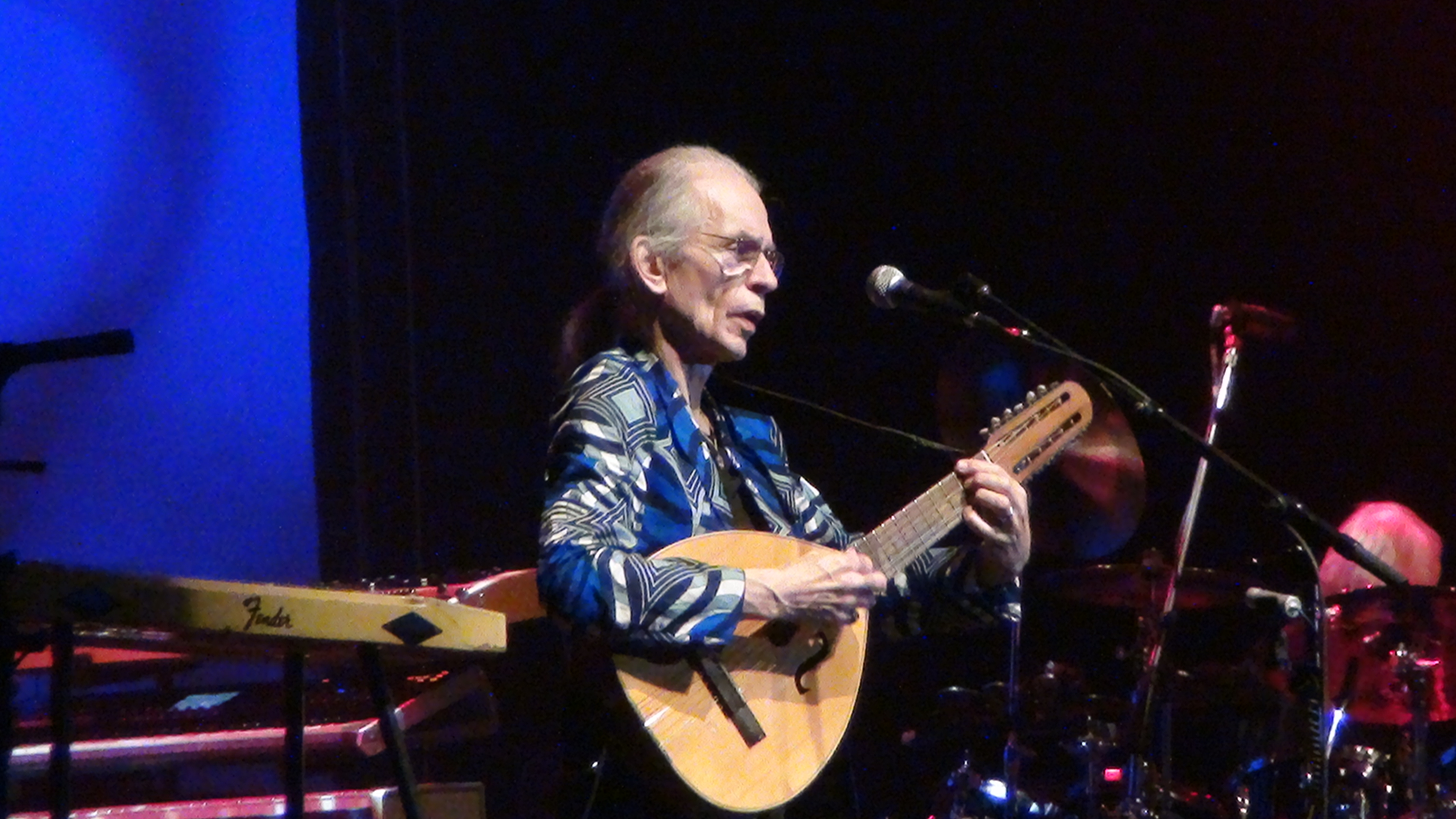 Steve Howe playing his laud (Spanish lute) in a Yes show at HSBC Brasil Hall in São Paulo on 24 May 2013.